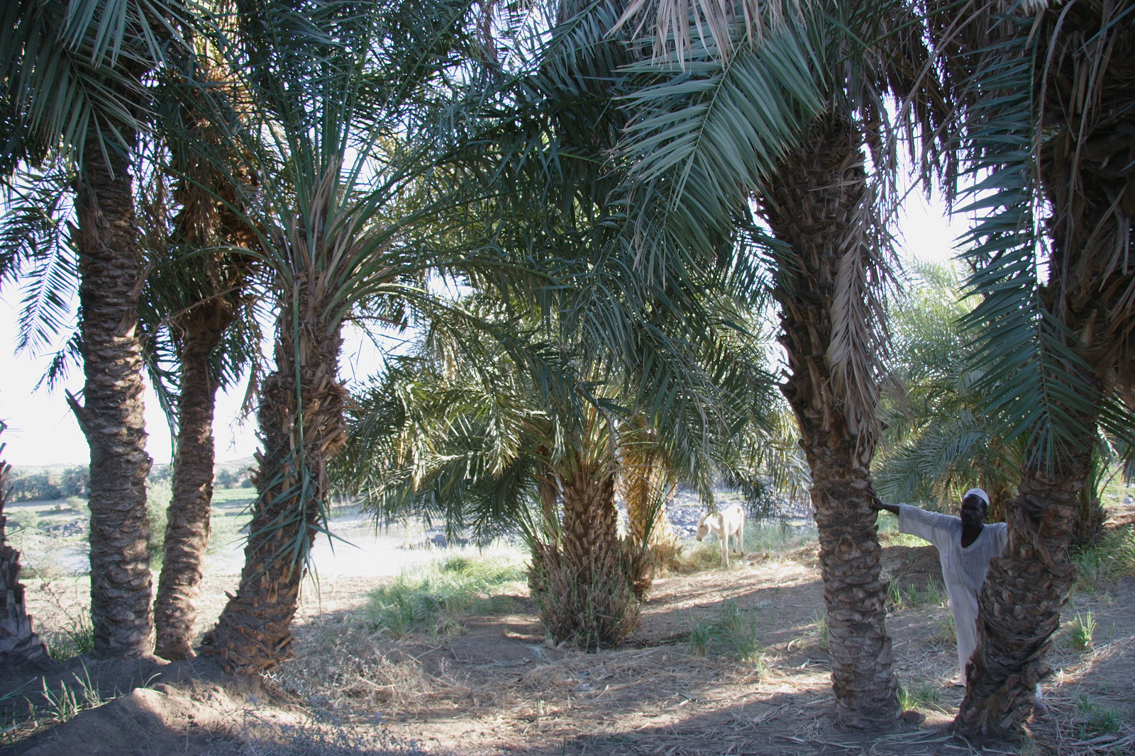 Wad Laqai palm tree (ود لقاي) on Sherari Island in Dar al-Manasir, Northern Sudan. (c) David Haberlah (Homepage of David Haberlah, )